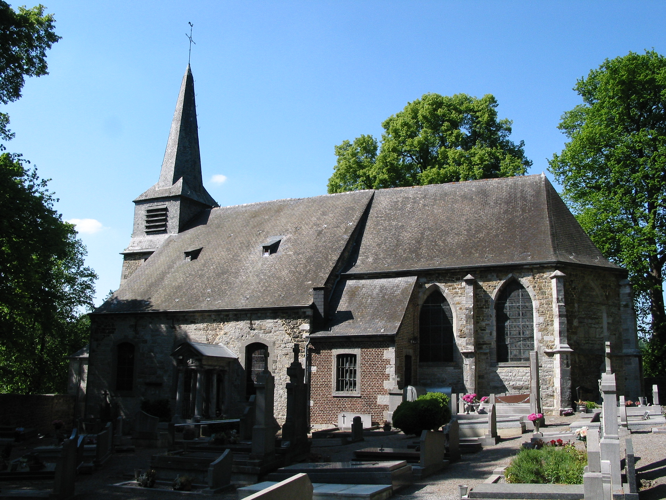 Gelbressée (Belgium), the Our Lady of the Nativity church.